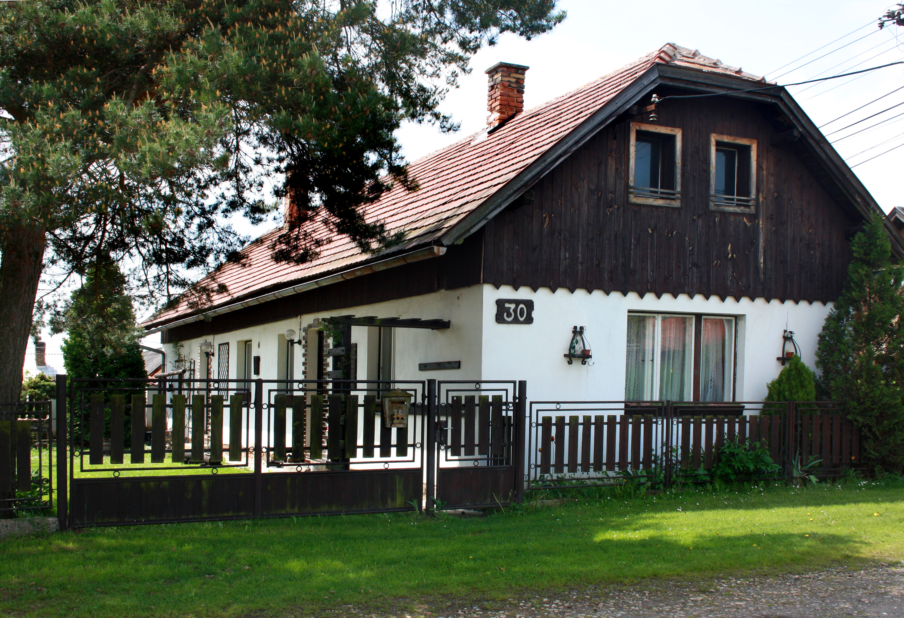 Křešice, part of Libáň town, Czech Republic